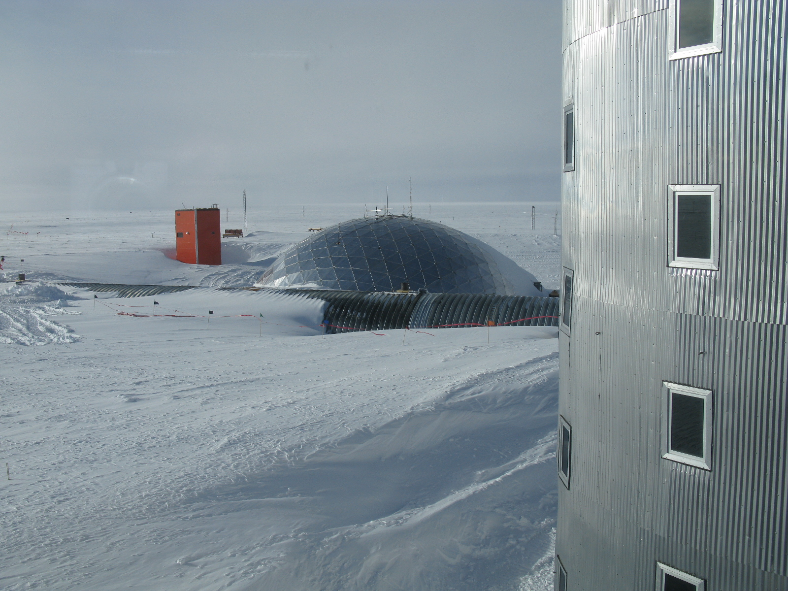 The existing South Pole dome as seen from the new South Pole station in Antarctica